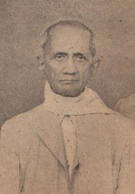 Pammal Vijayaranga Sambandha Mudaliar (1873-1964), Tamil playwright, director, and actor.